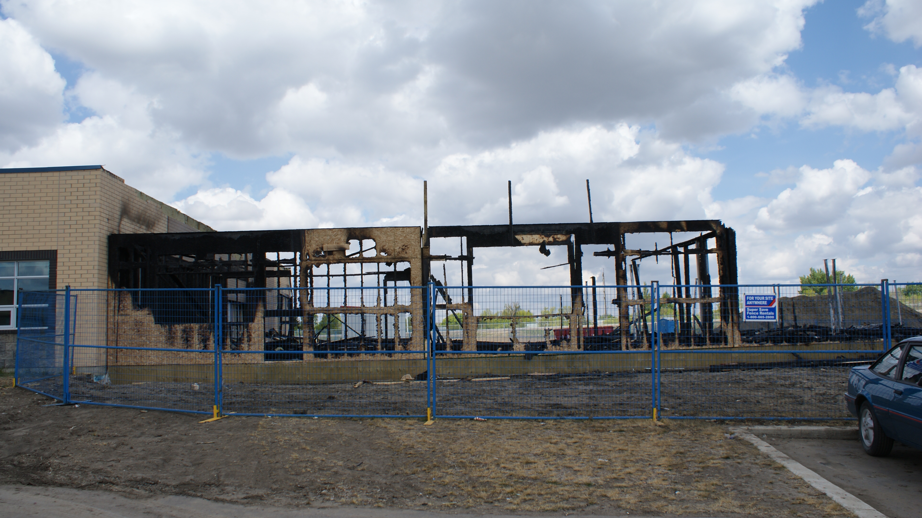 Bethlehem High School fire of Sunday June 7, 2009 8:18 a.m. to the 250 student addition project